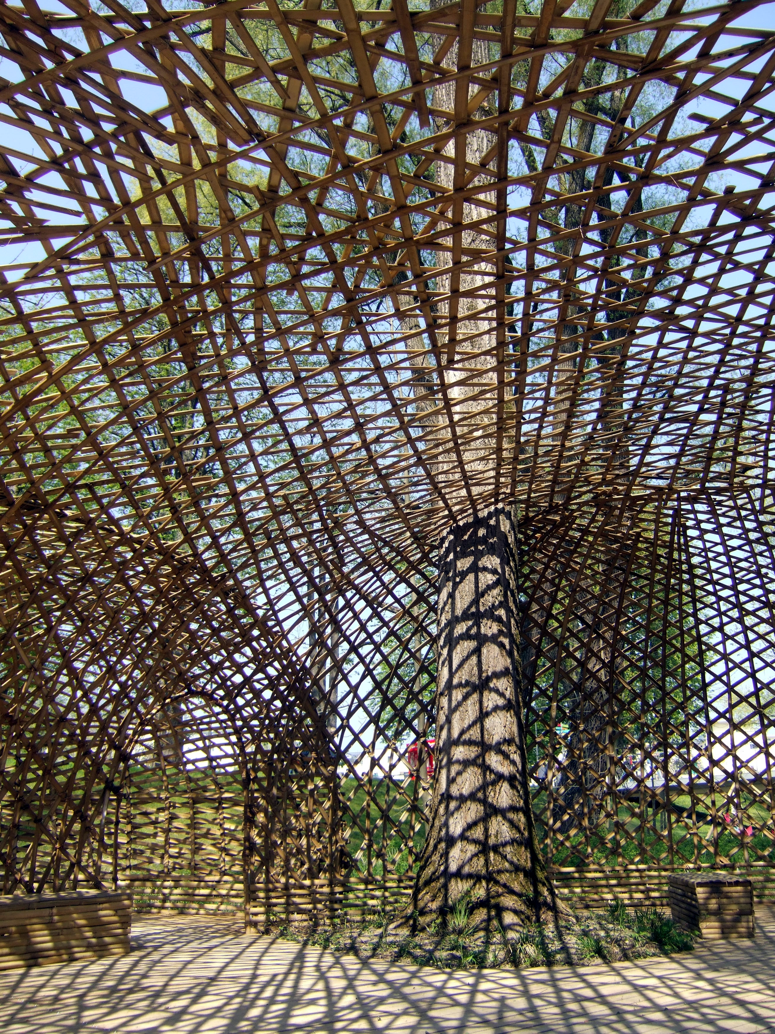 Bavarian horticultural exhibition 2010 in Rosenheim: bamboo house (by Josef Bachinger)